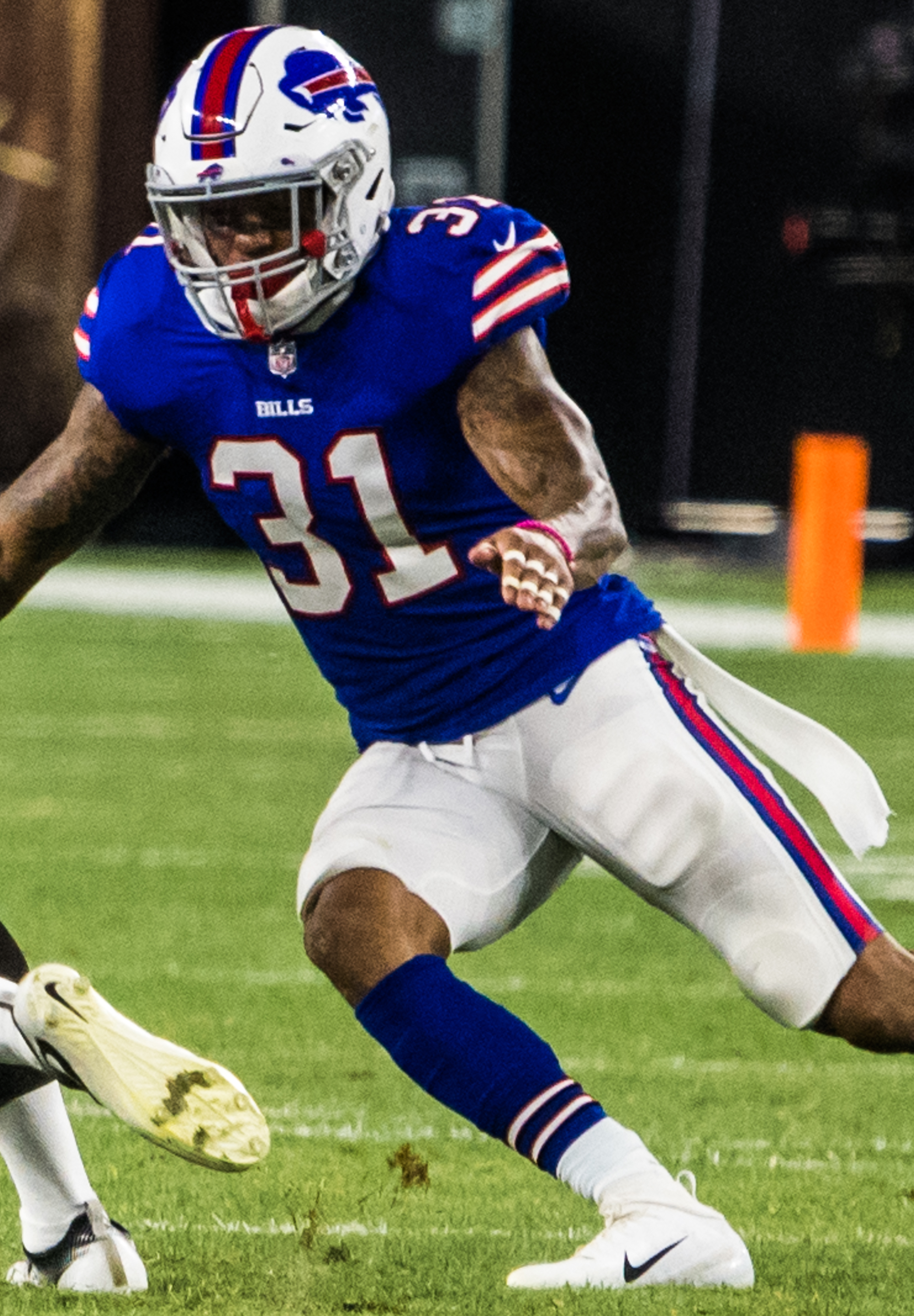 Nick Chubb